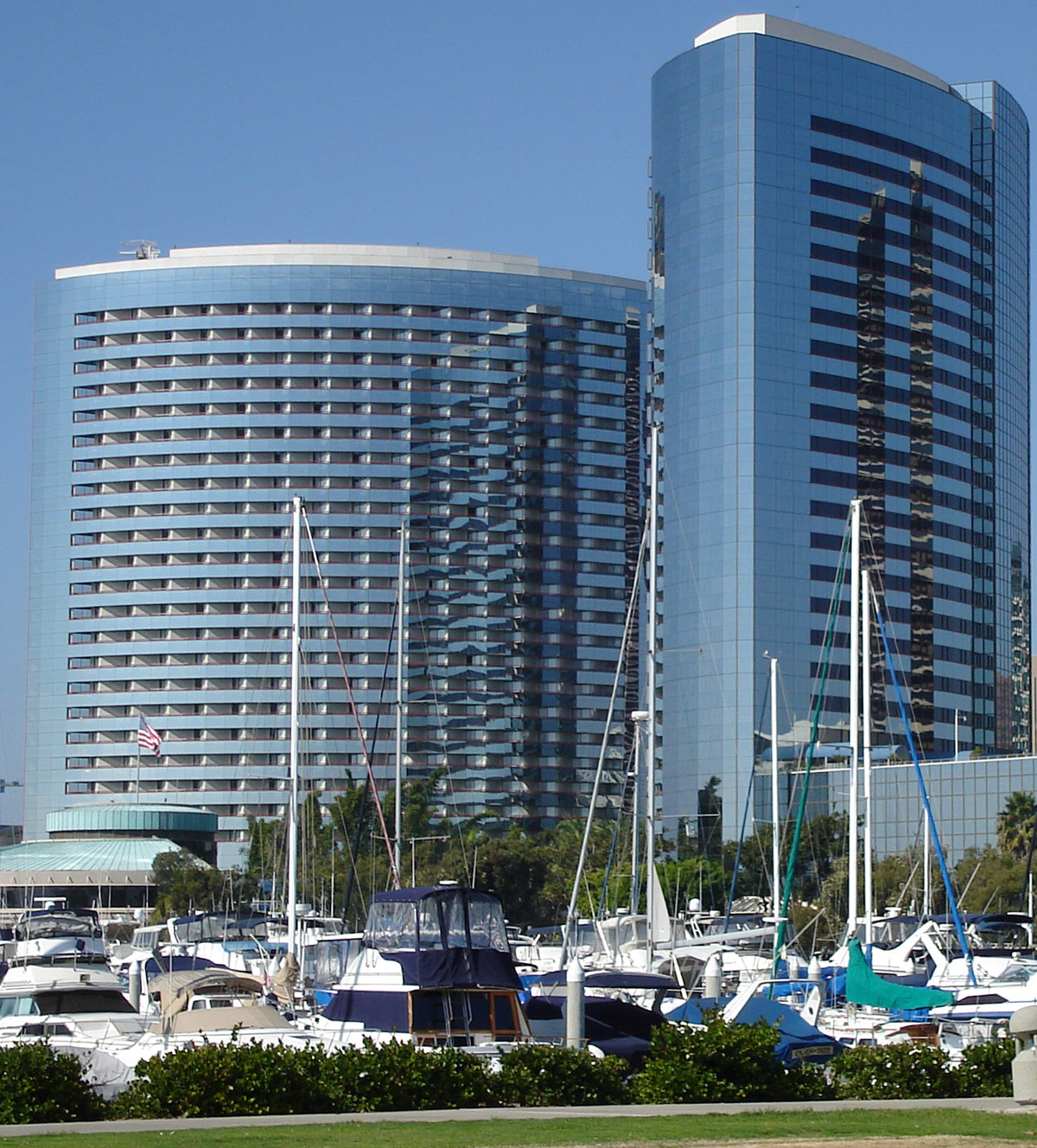 The San Diego Marriott Marquis and Marina, taken from the south of the hotel.